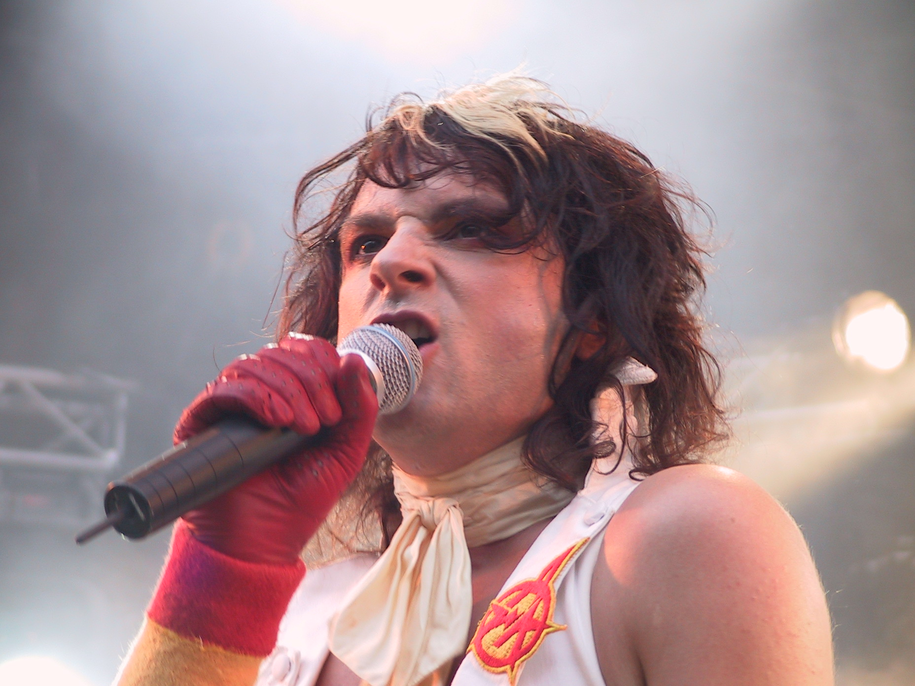 Ola Salo from The Ark on Ankkarock 2005 (Finland).